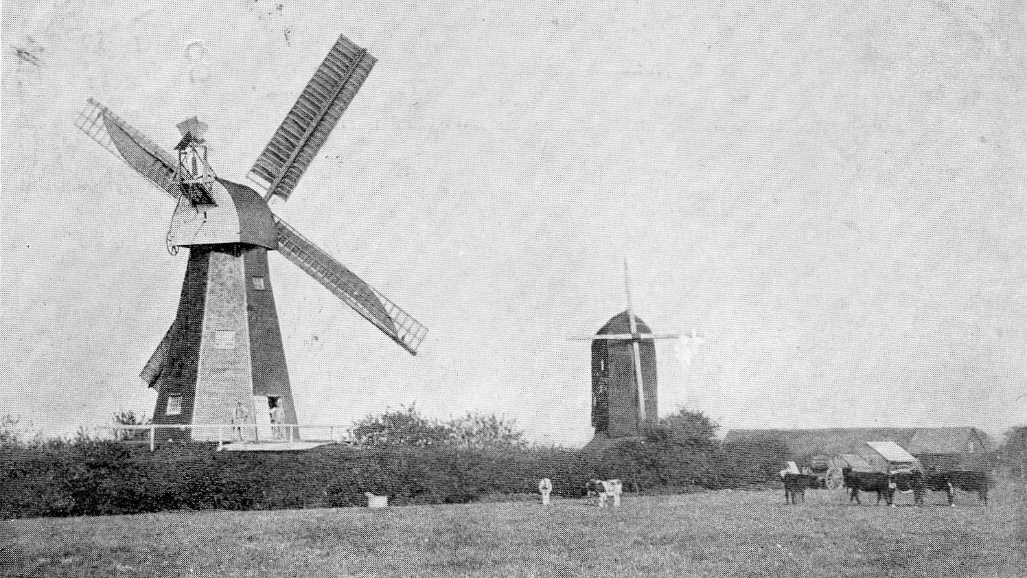 West Kingsdown windmills, postcard datestamped 5 April 1906